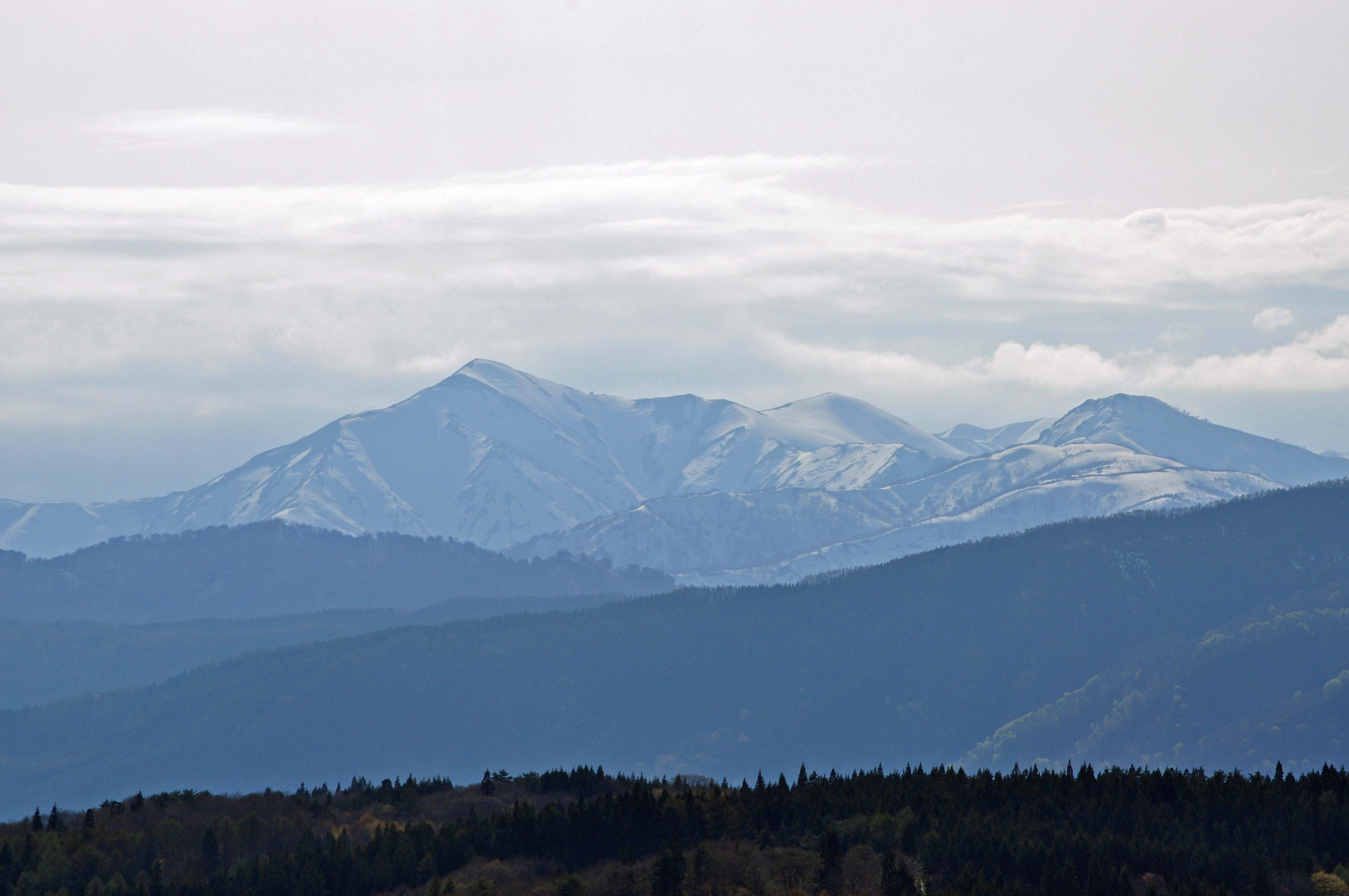 The ESE side of Asahi Mountains seen from Mount Shirataka.